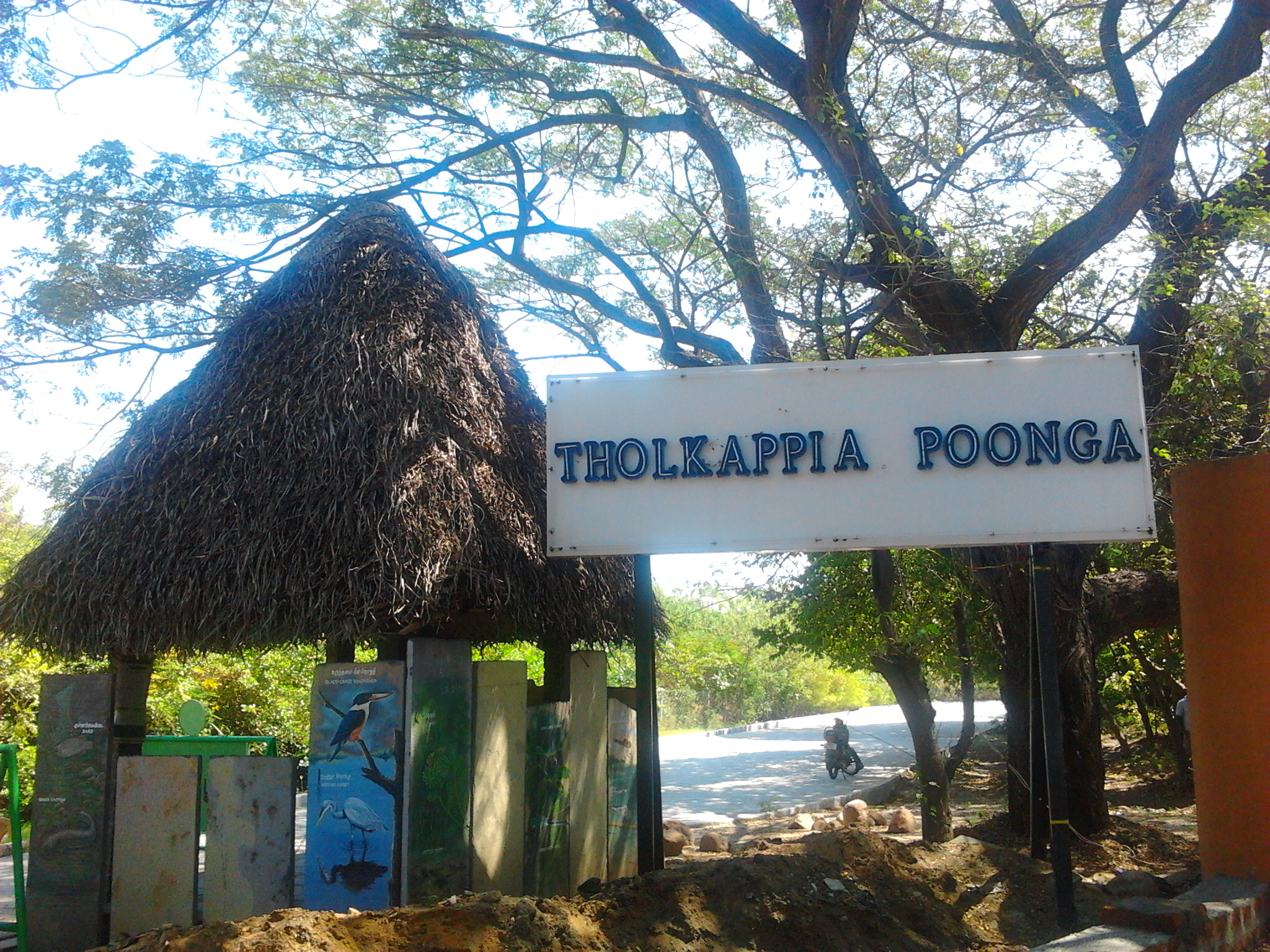 Photoed using Samsung Wave 525.